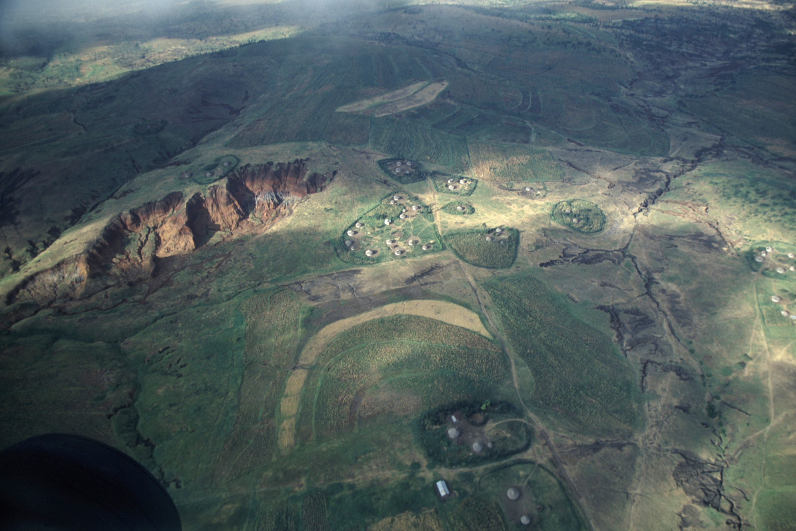 Masai villages seen from an airplane. Taken on safari in Tanzania.